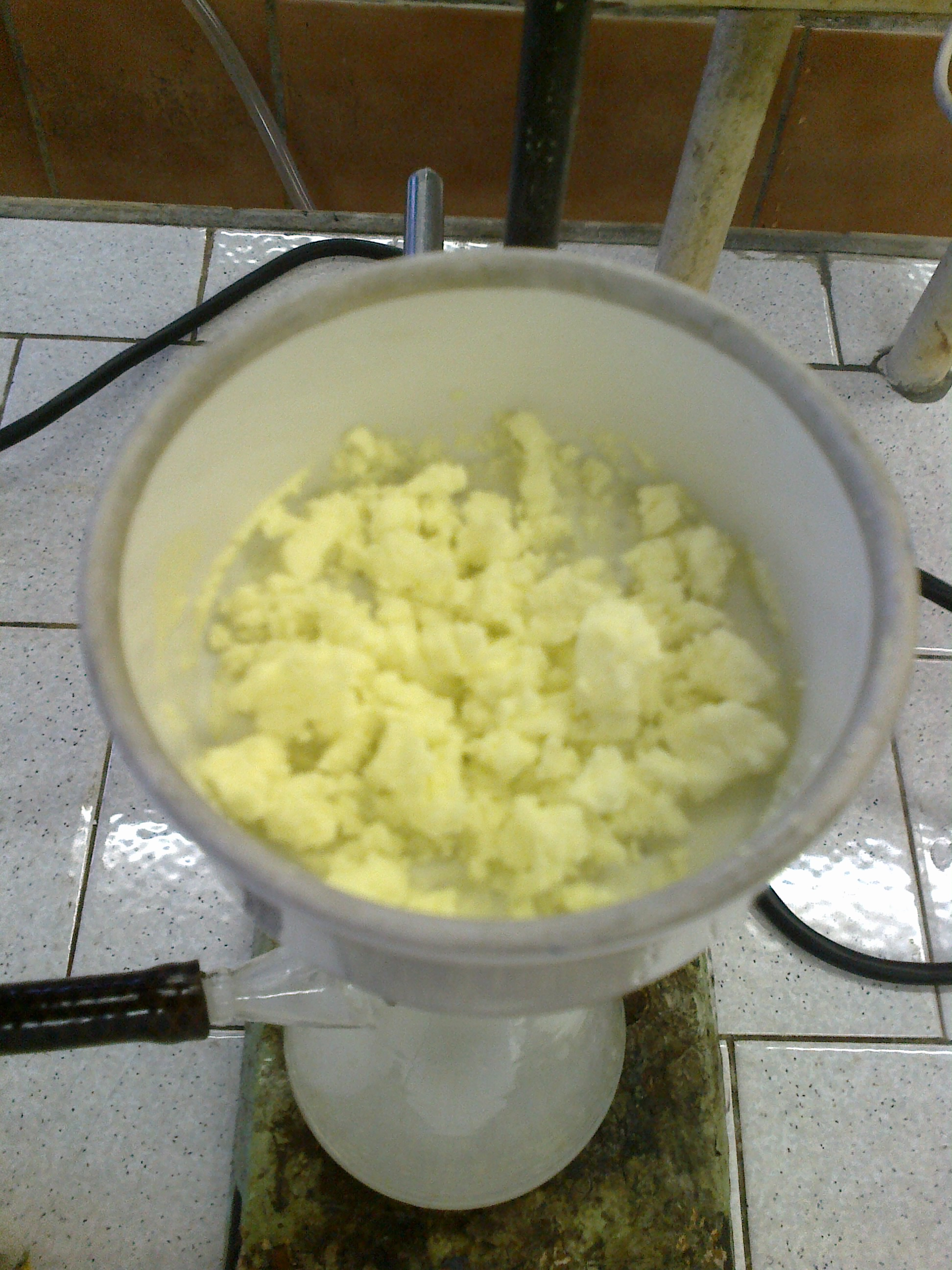 Driyng dibenzalacetone. Photo taken at Slovak University of Technology.